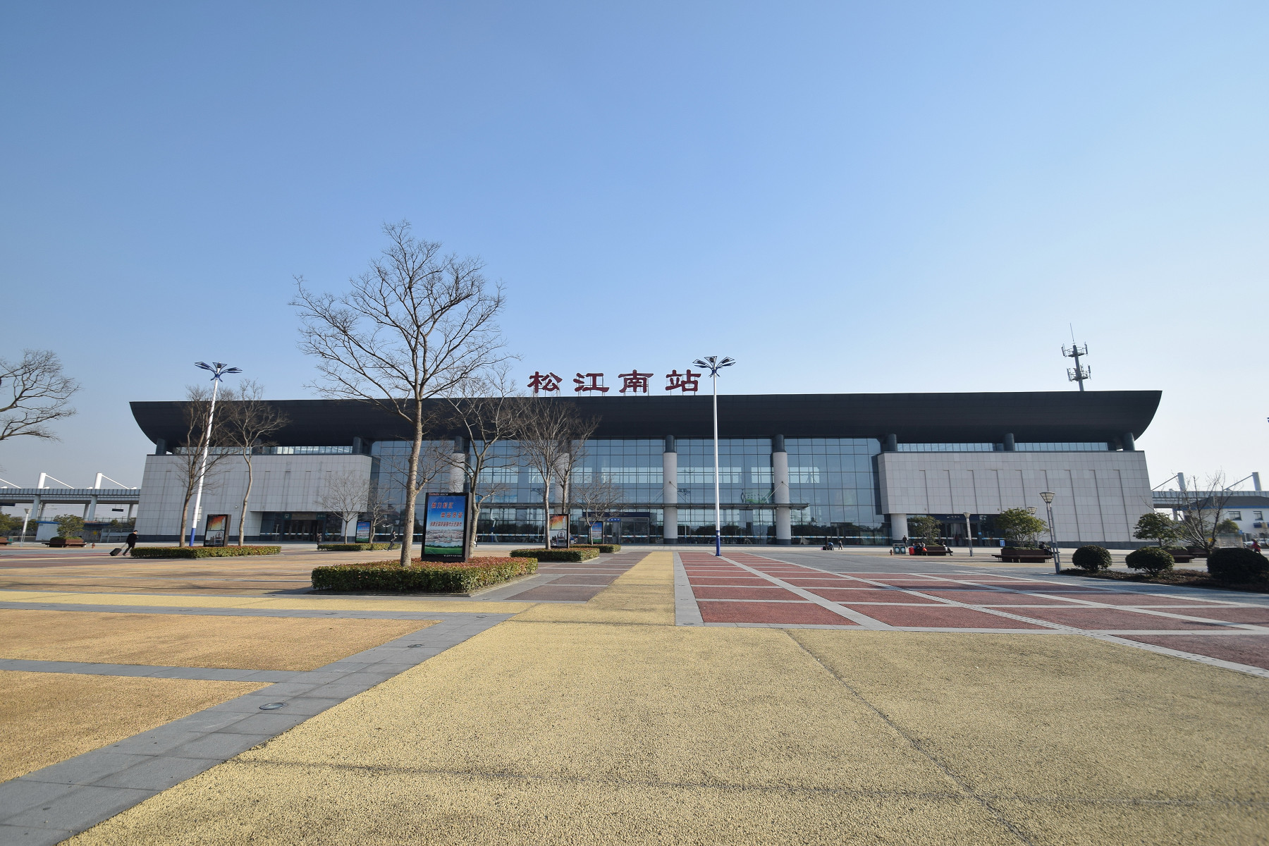 Songjiang Nan (South) Railway Station, Shanghai-Kunming High-speed Railway